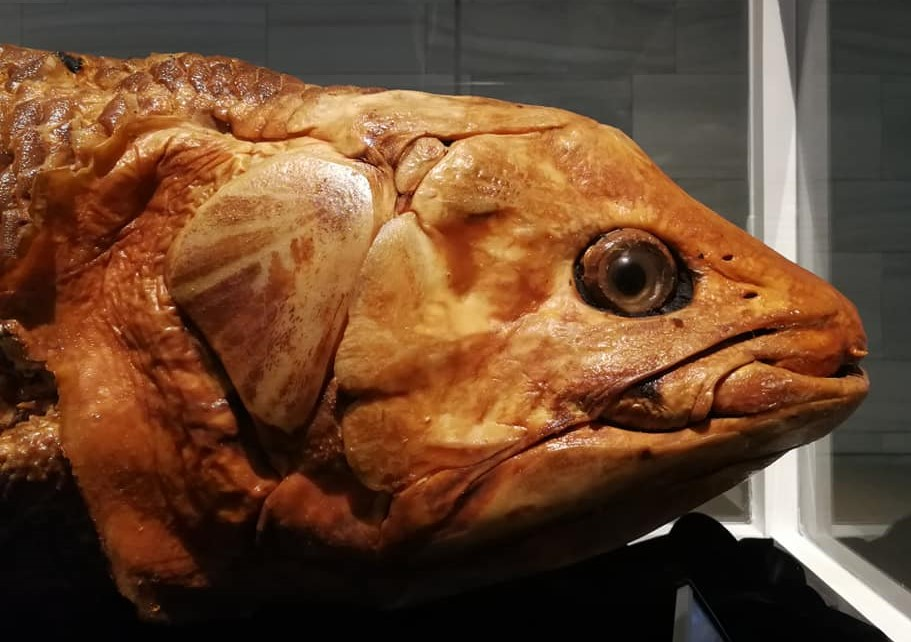 West Indian Ocean Coelacanth Fish (Latimeria chalumnae) at Abdallah Al Salem Cultural Center in Salmiyah, State of Kuwait